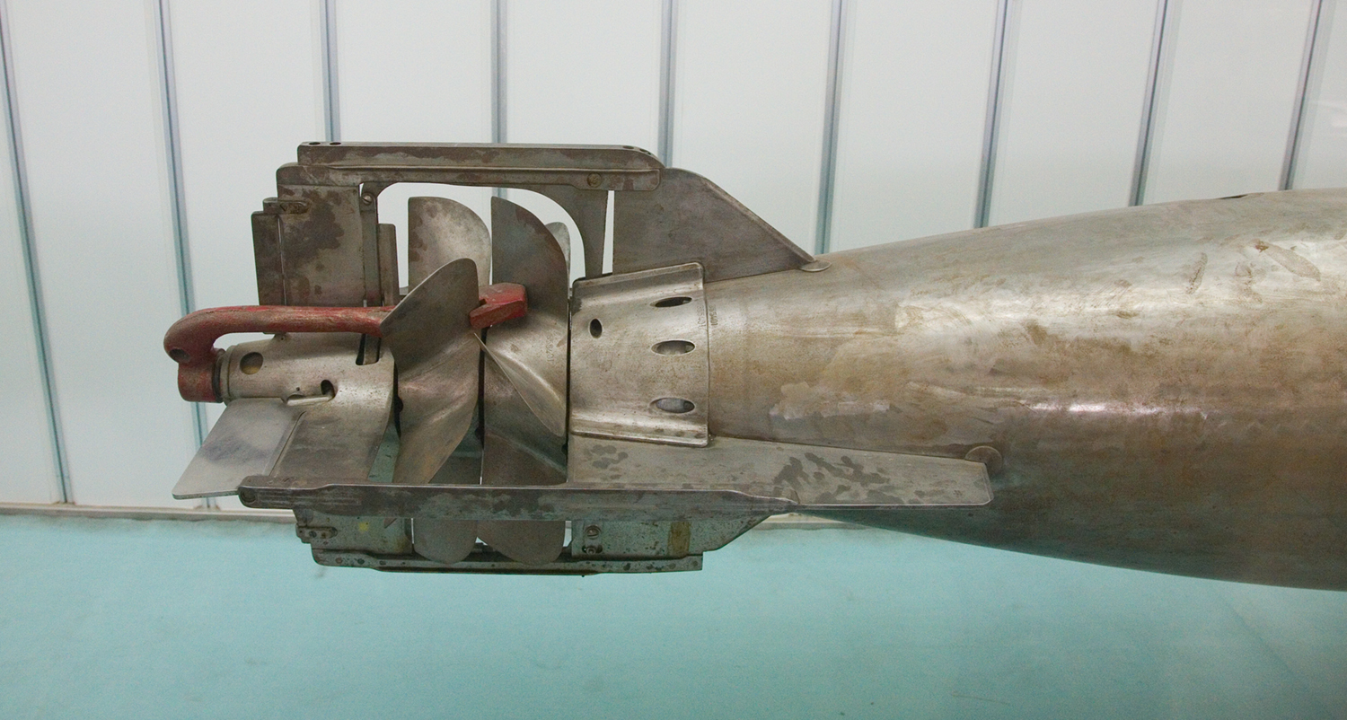 A Yu-1 Torpedoes contra-rotating propeller section, taken at the Beijing Military Museum